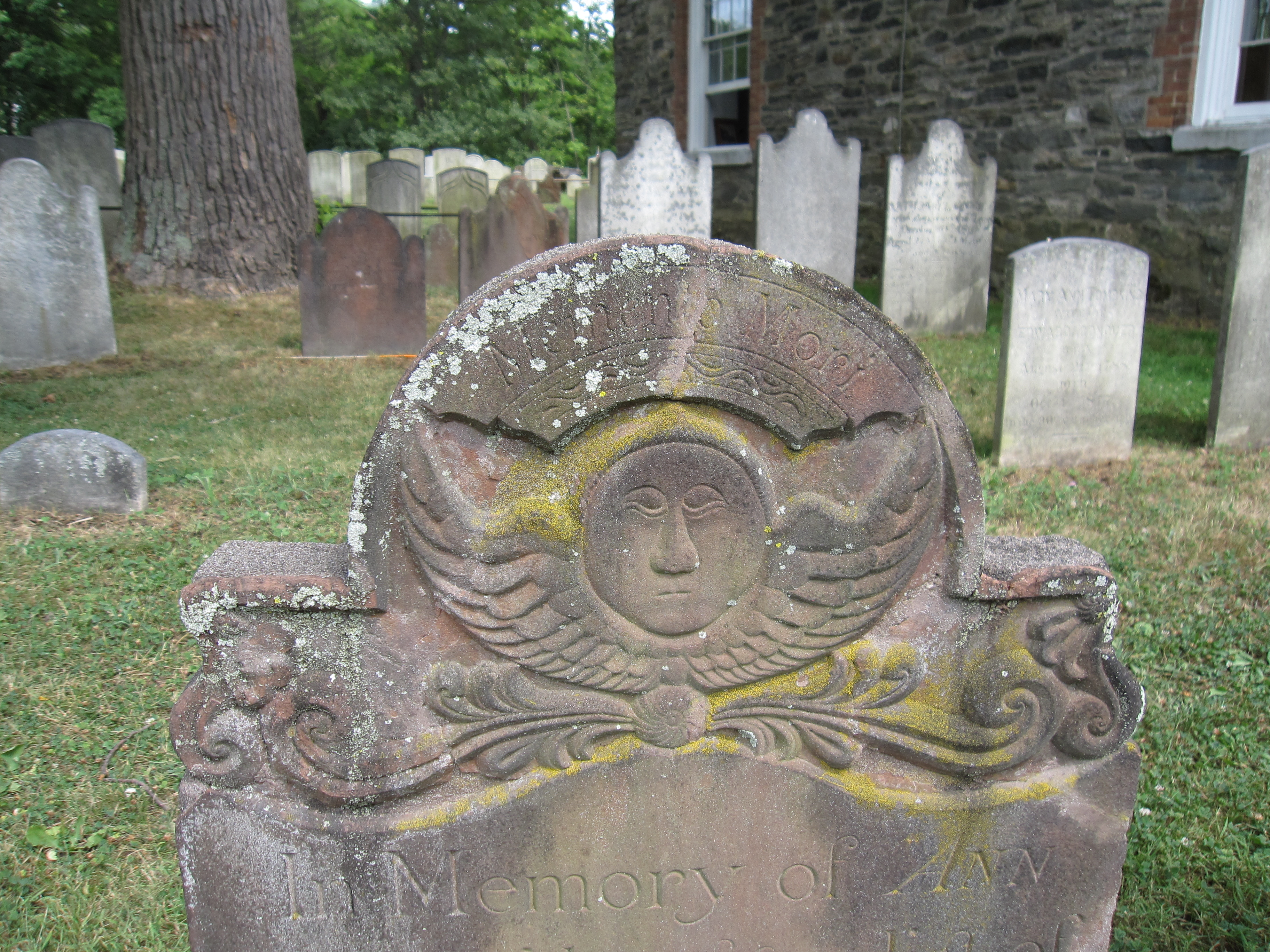 Depiction of the soul on a 17th century tombstone at the cemetery of the Old Dutch Church of Sleepy Hollow